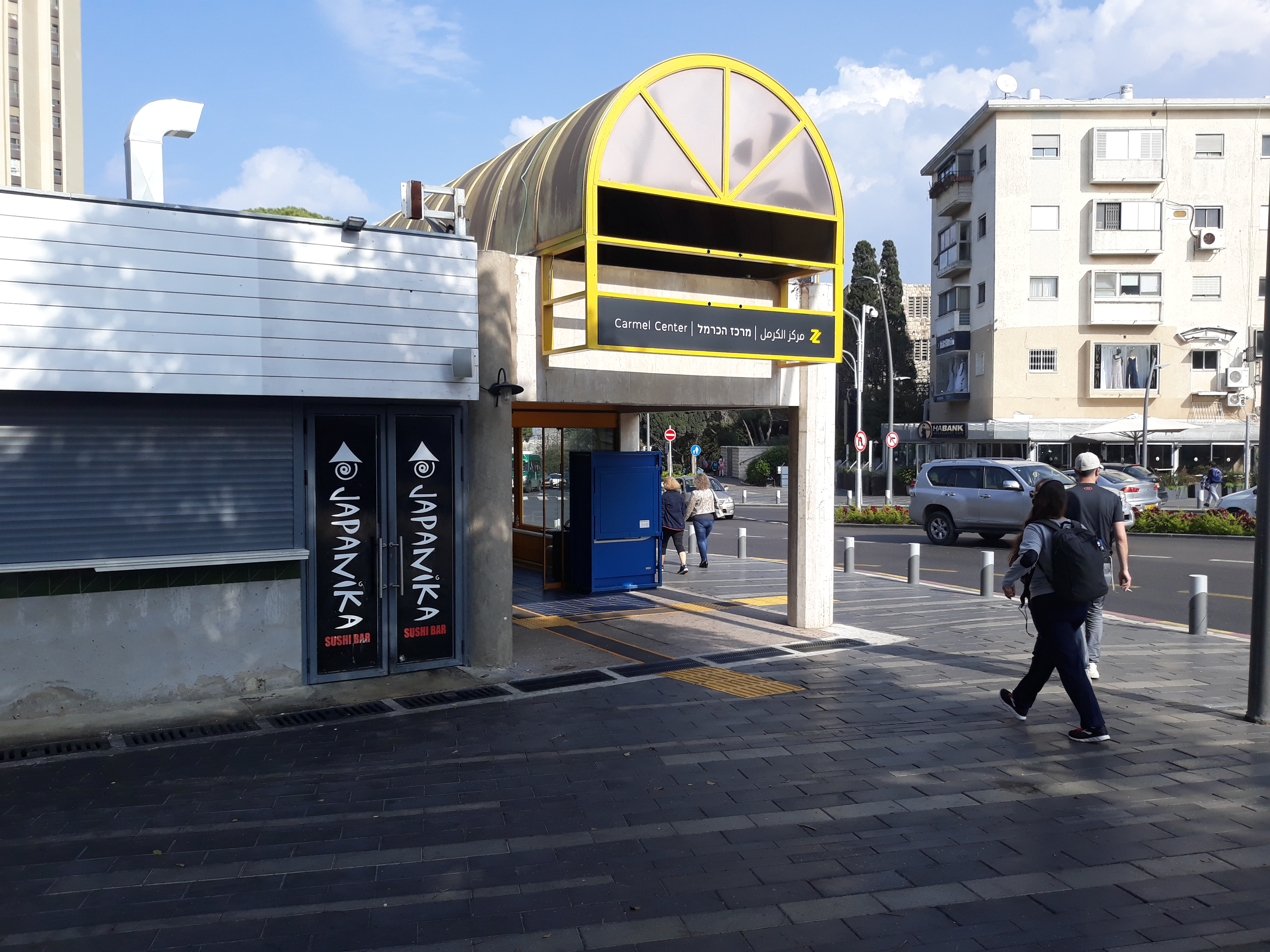 Carmelit subway in Haifa after its reopening in 2018